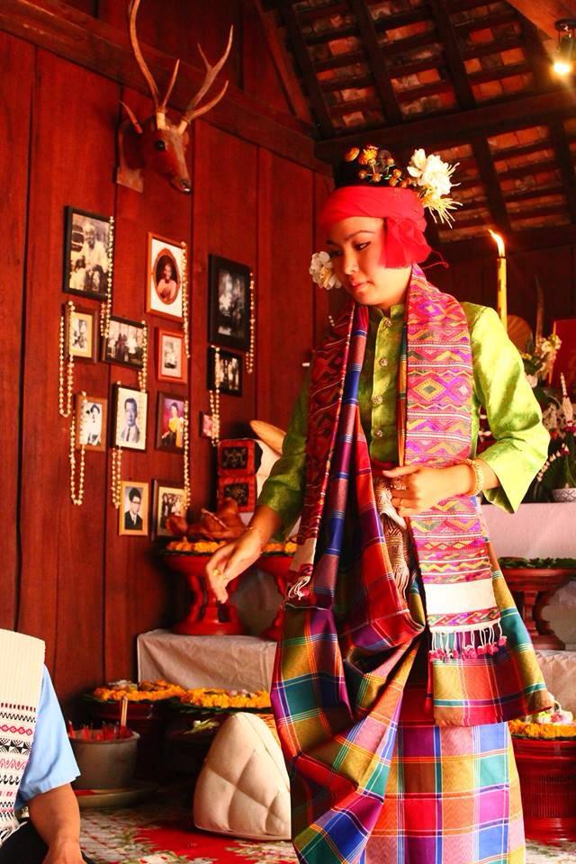 During the ritual of spirit dance, the tradition in Thai's northern (picture taken in ChiangRai, Thailand).